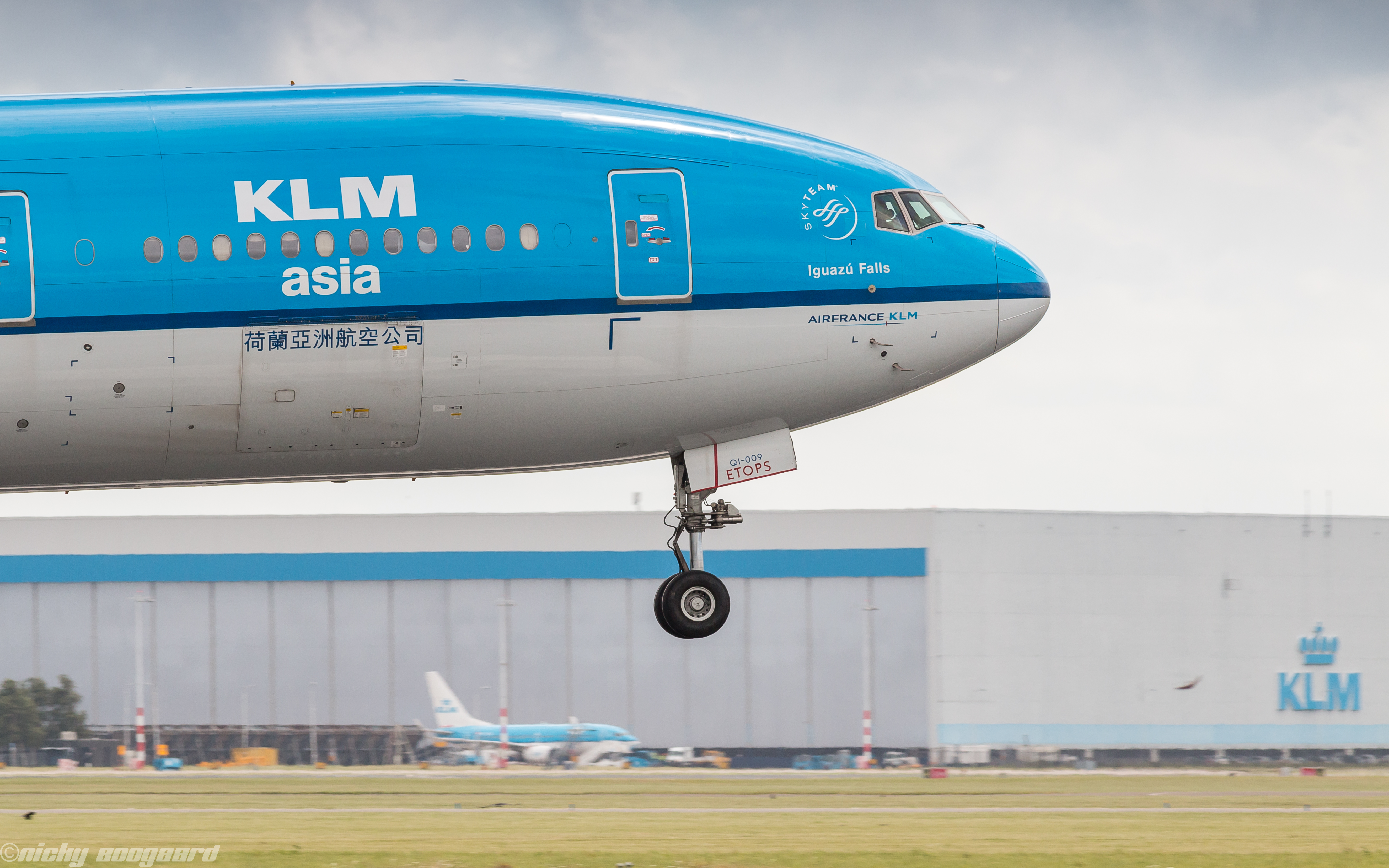 Schiphol, the Netherlands